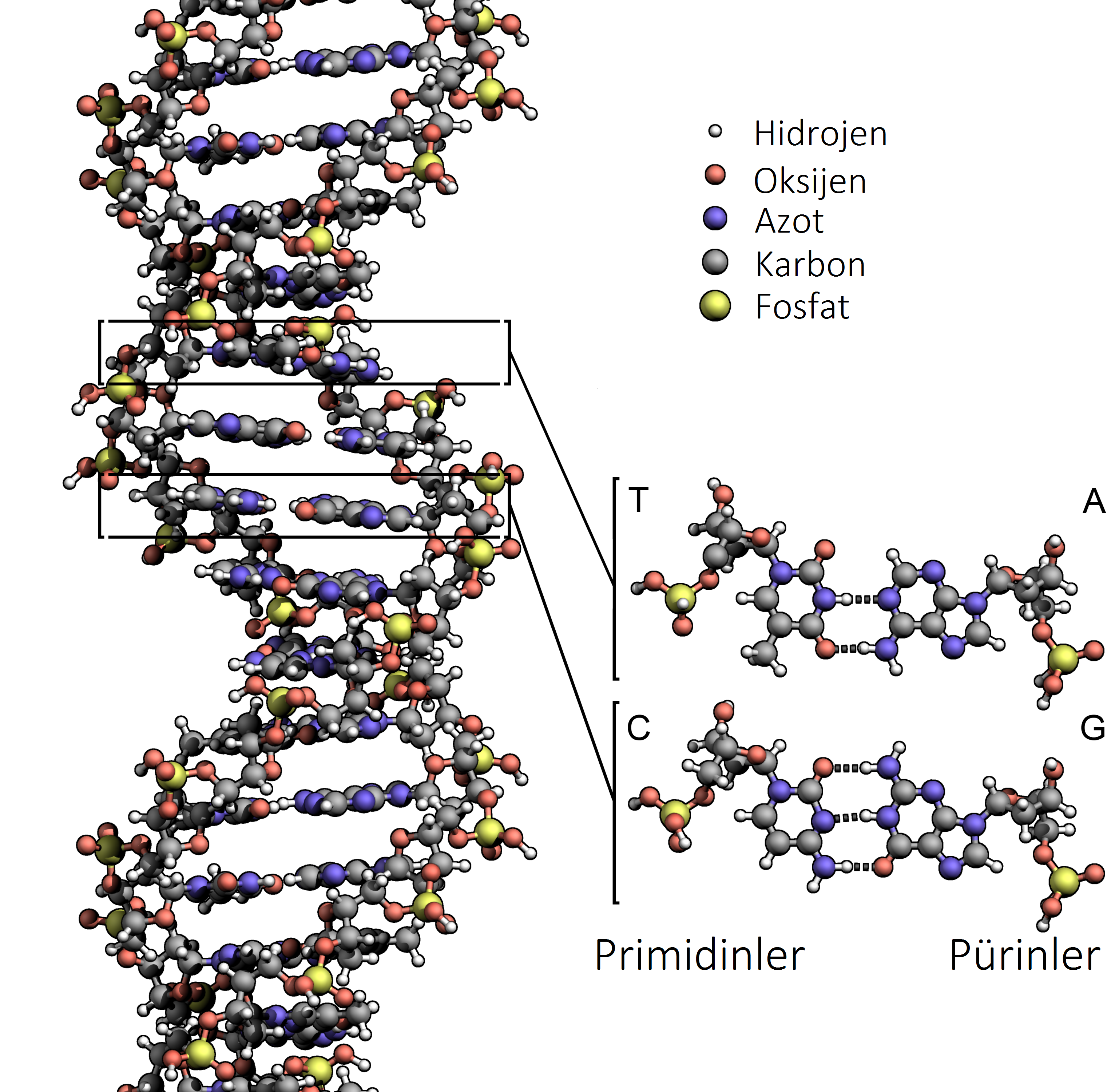 The structure of DNA showing with detail showing the structure of the four bases, adenine, cytosine, guanine and thymine, and the location of the major and minor groove.